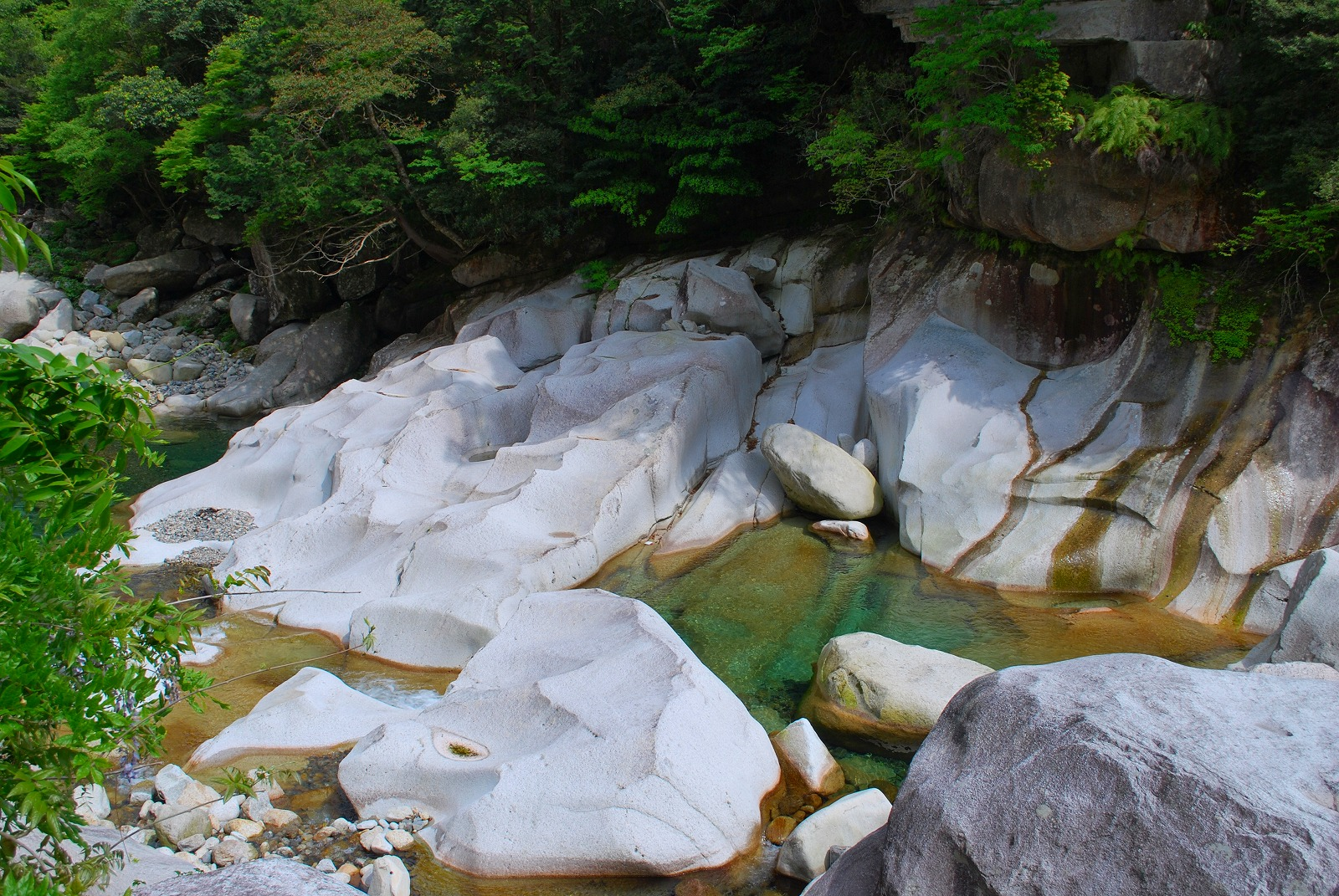 Uotobi valley